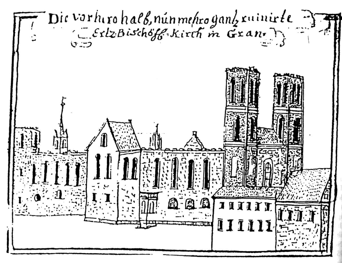 Ruins of the Saint Adalbert church in Esztergom, in the first half of the XVIII. century. The church was ruined because of the sieges during the Turkish occupation.